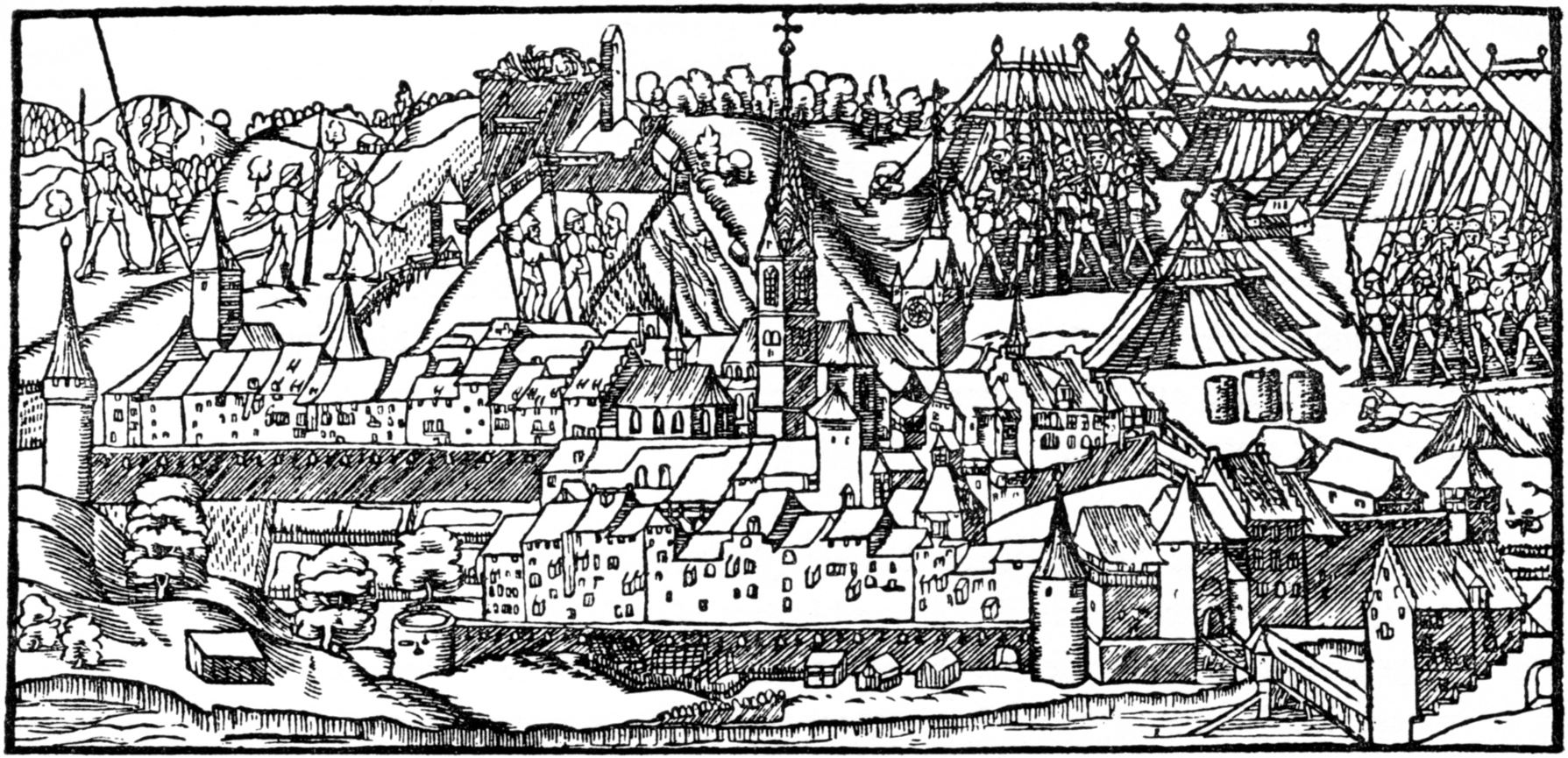 The siege of Baden 1415 during the conquest of the Aargau by the Old Swiss Confederacy